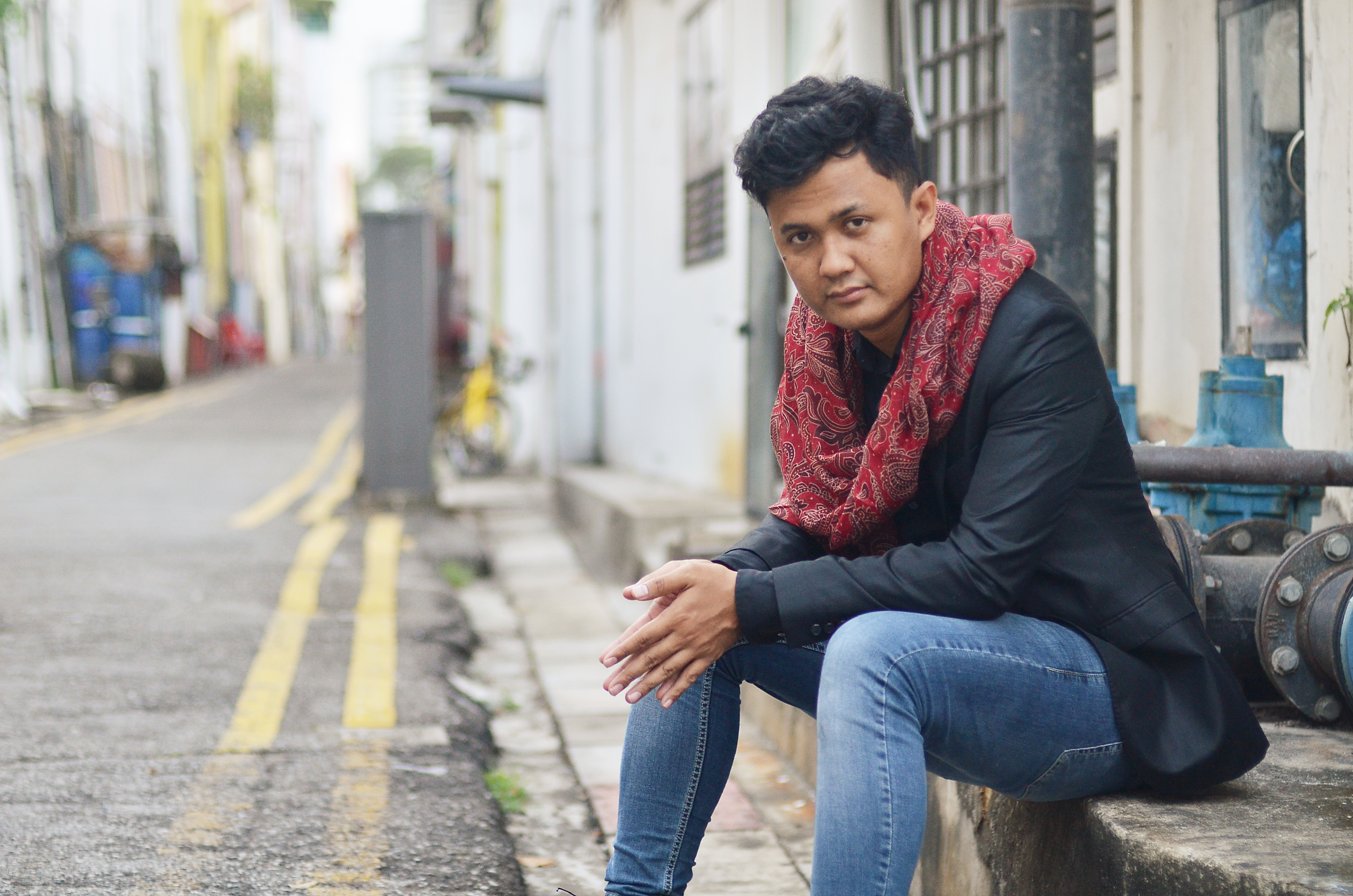 An image of Singaporean author Suffian Hakim seated at Club Street in Singapore. He is wearing a blazer and his trademark red scarf.